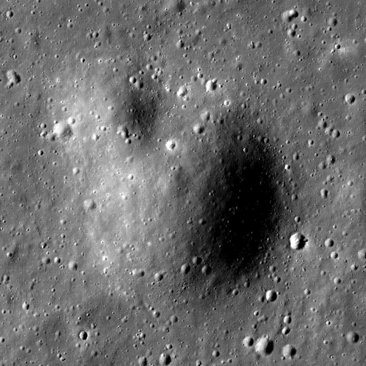 Small (400 m) crater Dag on the Moon, in Lacus Felicitatis, near crater Ina (a map). Centered at 18.706°N, 5.269°E (according to JMARS). Photo by Lunar Reconnaissance Orbiter, made with Narrow Angle Camera 27 November 2009 from altitude 45 km. Sun elevation is 32.3°. Width of the photo is 670 m, north is up.